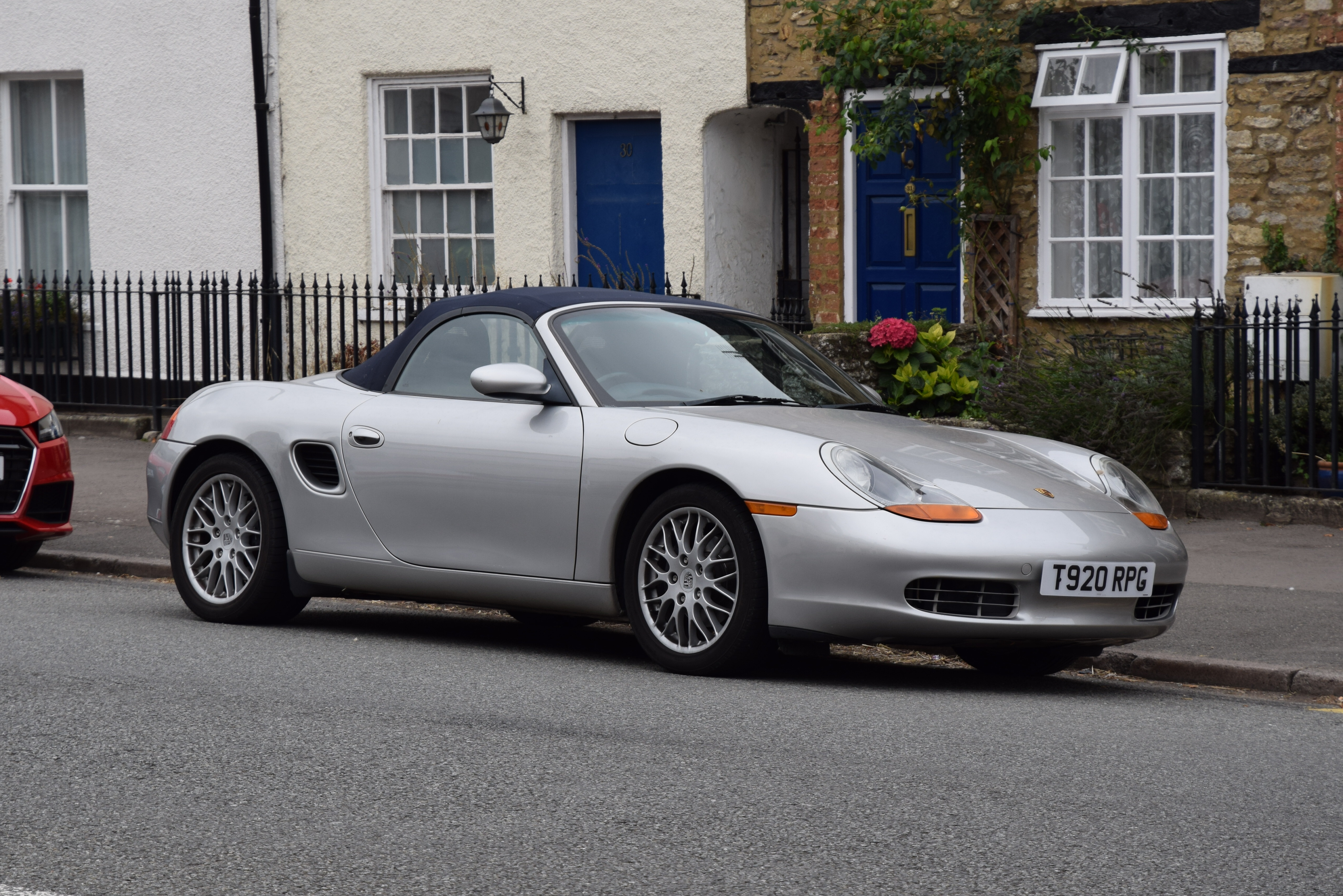 1999 Porsche Boxster (986 series) 2.5 litre flat six, at Highworth, Gloucestershire, 6 September 2018.